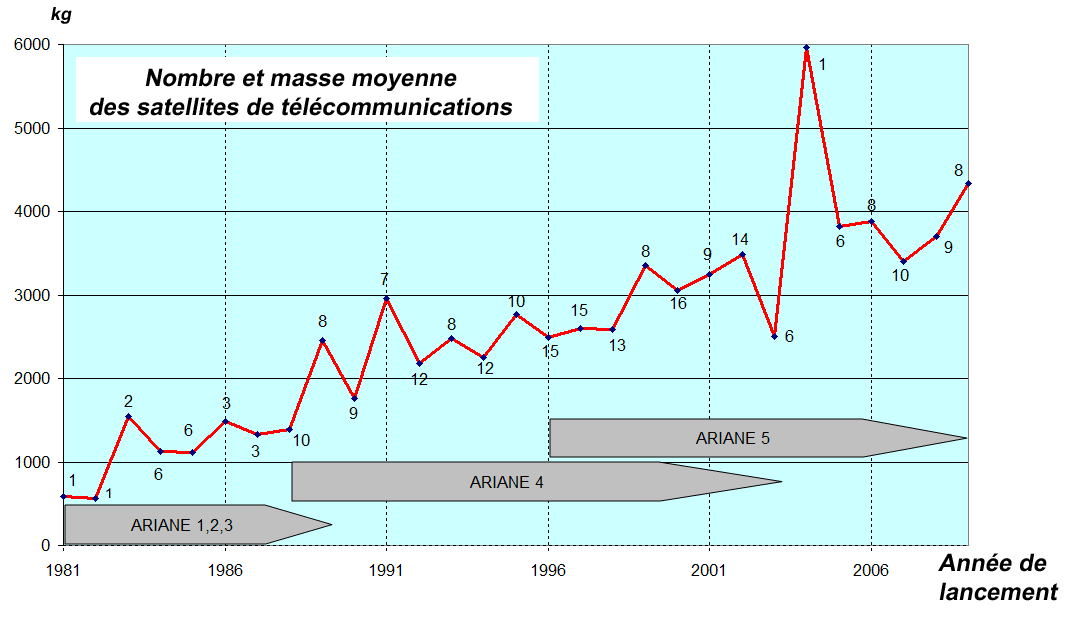 Number and average weight (kg) of the communications satellites launched by the Ariane rockets between 1979 and 2009